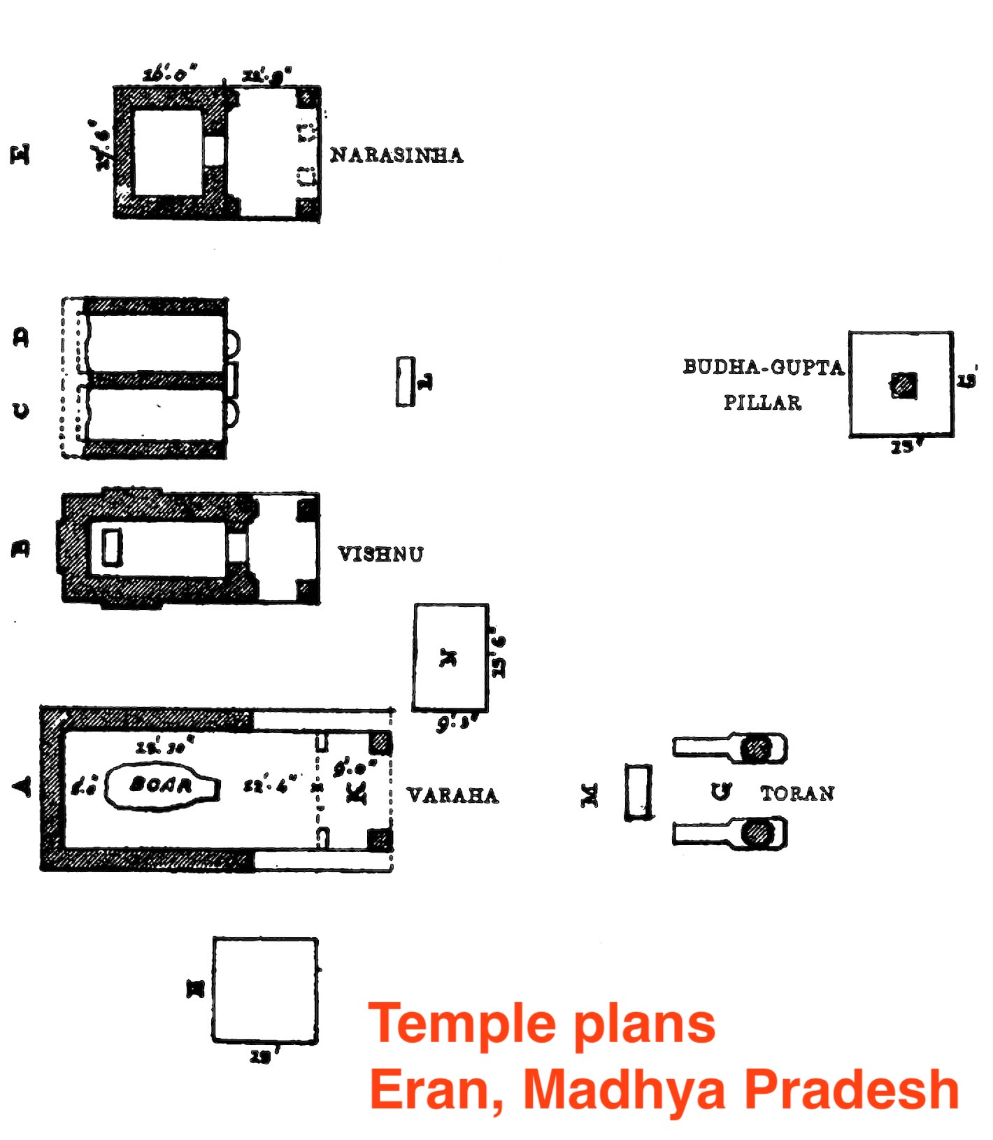 Eran is an ancient city mentioned in Buddhist and Hindu texts. It was a major coin minting center in ancient India. A capital of a region during the Gupta Empire rule in 3rd through 5th centuries CE, it built many temples and monuments. Of these a few have survived into the 21st century.